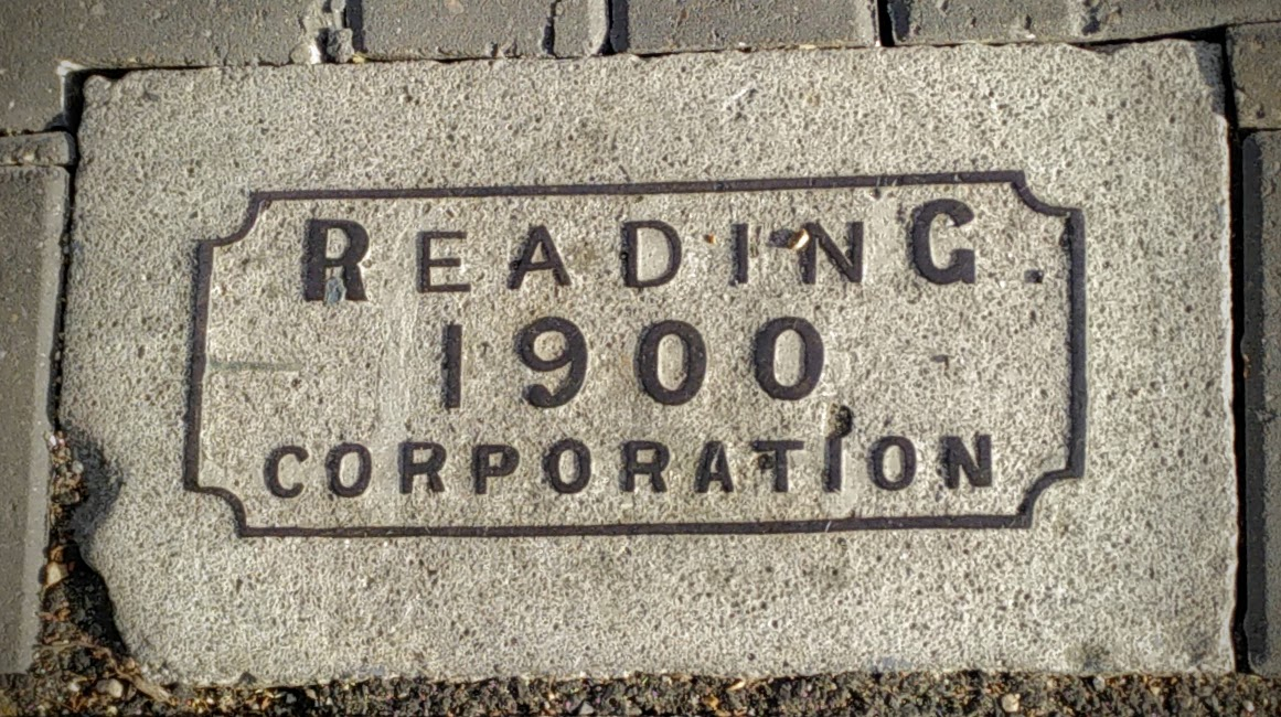 A plaque on the pavement outside Cafe Yolk. Placed there by Reading 1900 Corporation around 1903 to herald the arrival of the electric tram.